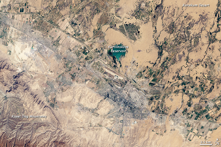 Satellite image of Ashgabat, Turkmenistan